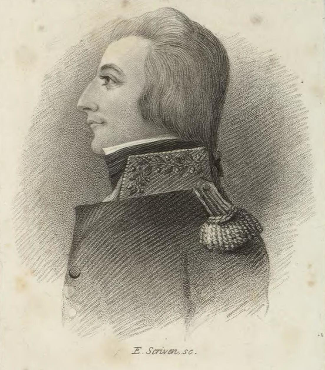 A portrait from the Welsh Portrait Collection at the National Library of Wales. Depicted person: Wolfe Tone – Irish politician